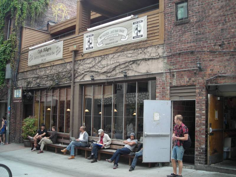 Allegro Cafe, Seattle - a view from the north looking south